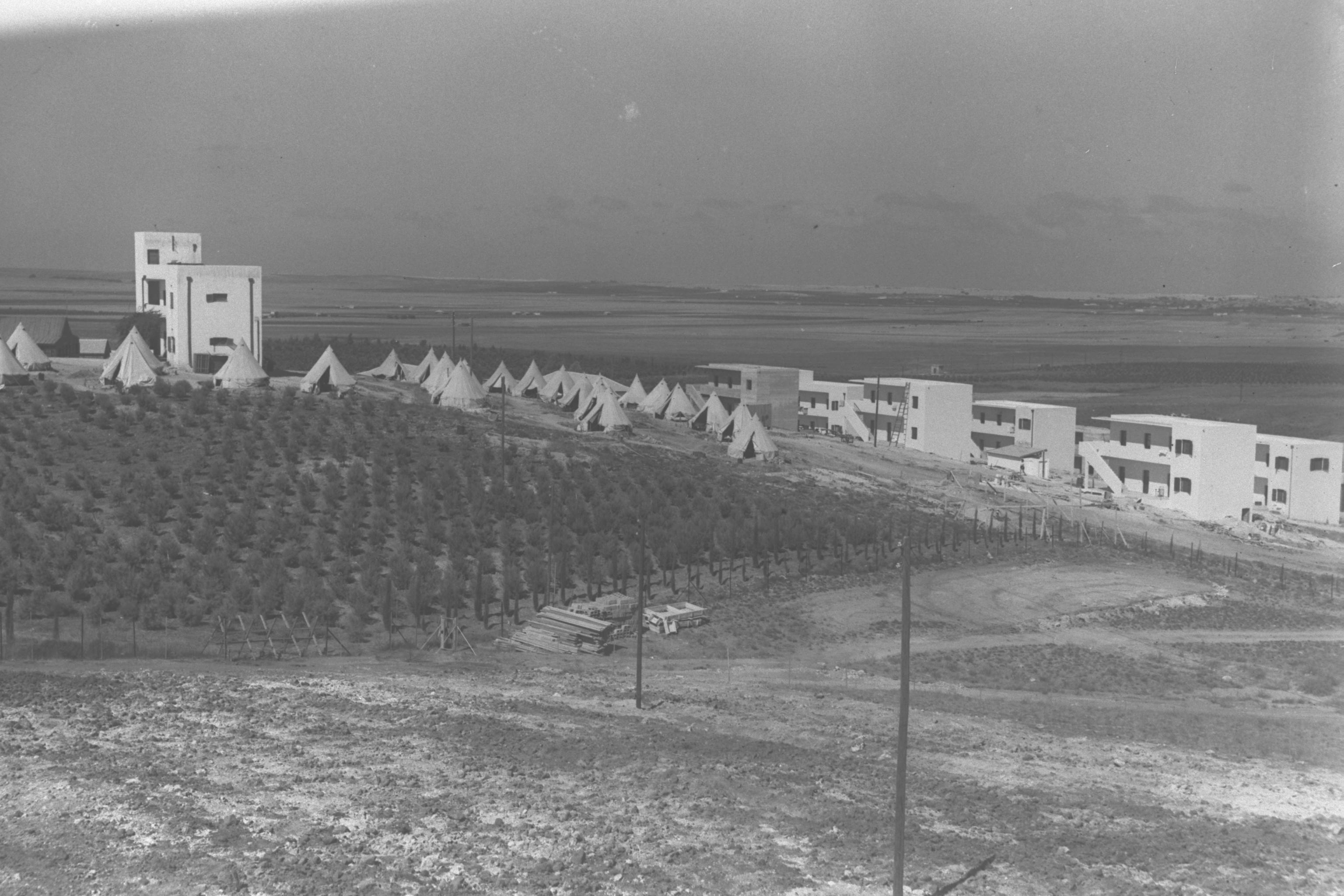 VIEW OF KIBBUTZ GIVAT BRENER. קיבוץ גבעת ברנר.